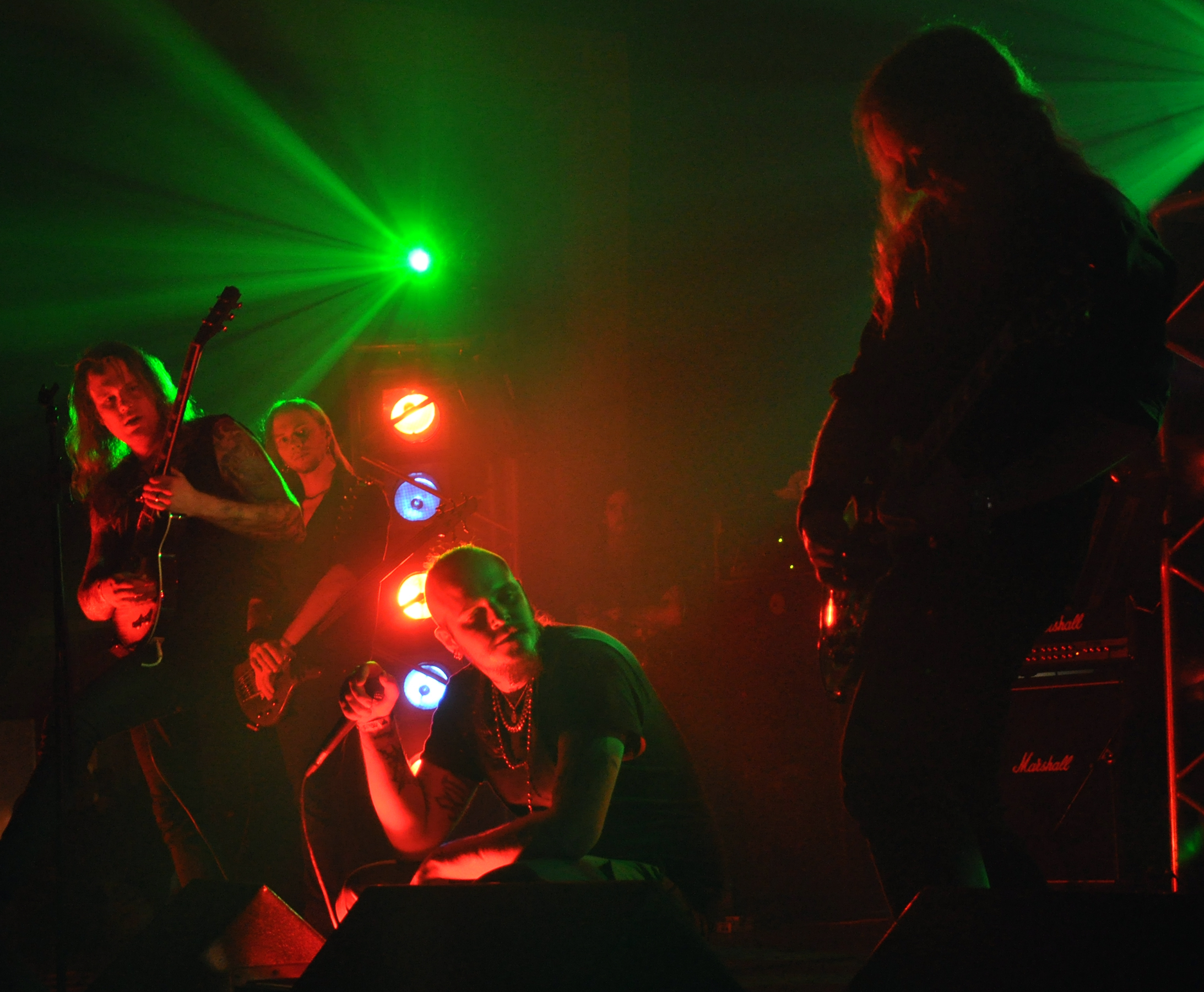 Shining performing at the Kings Of Black Metal in Alsfeld (Germany), on the 21st of April 2012.